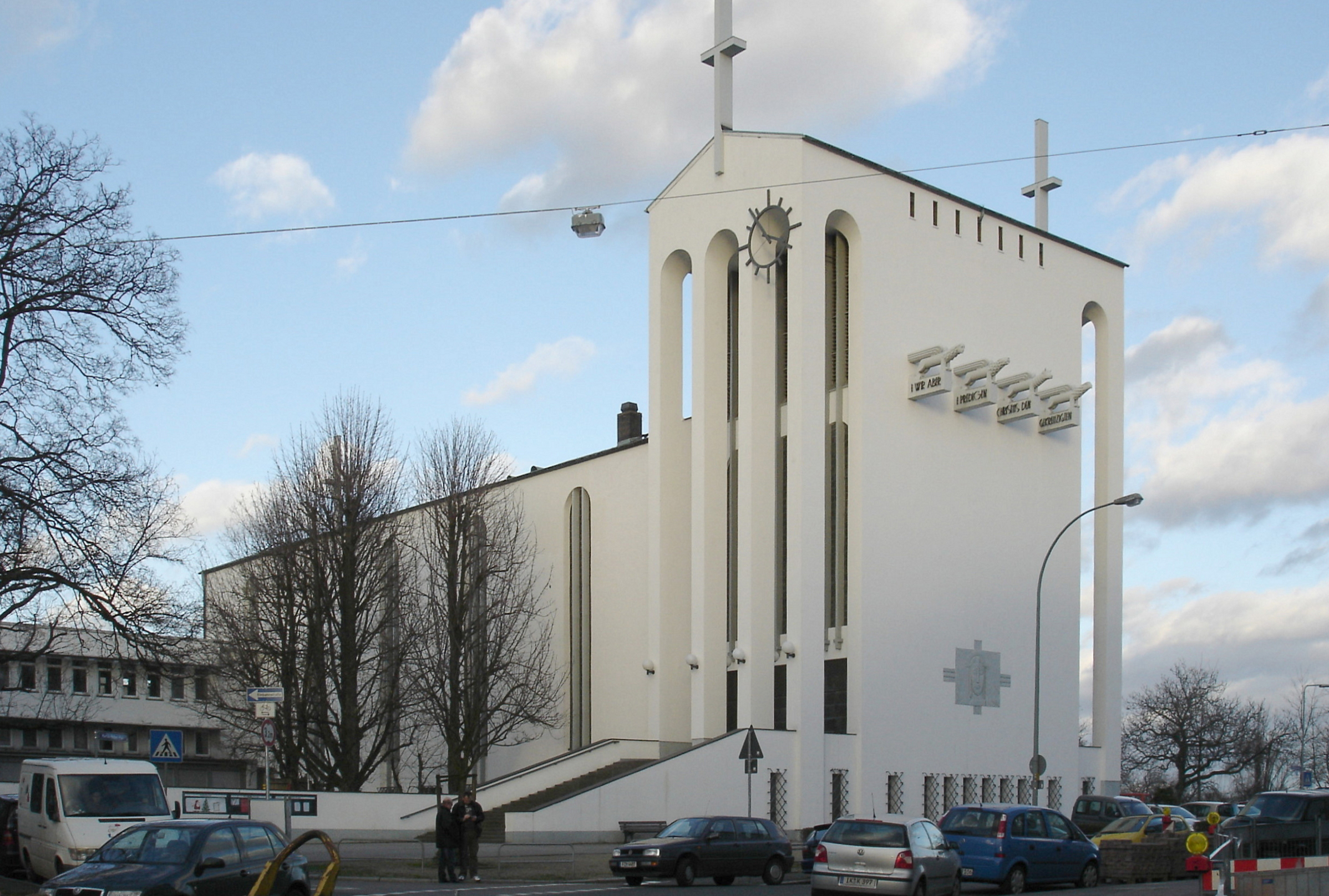 Holy Cross Church in Frankfurt am Main-Frankfurt am Main-Bornheim